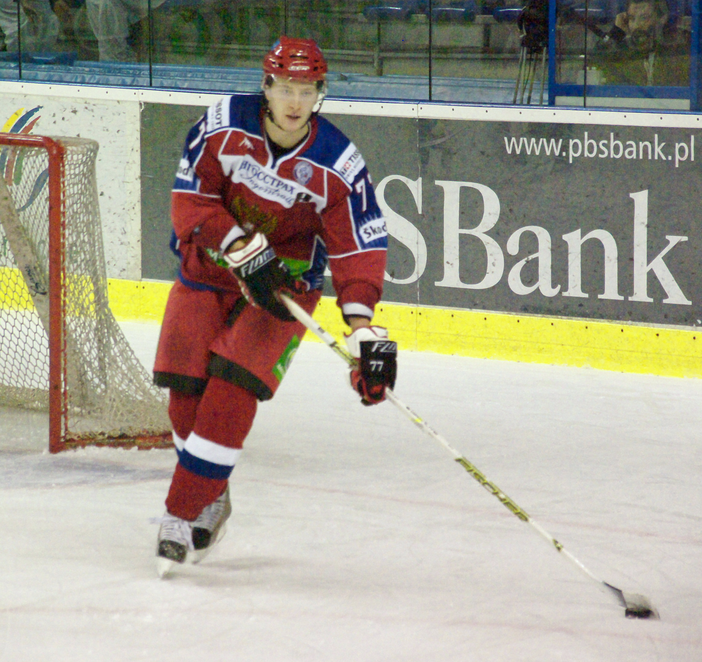 Anton Belov during match Russia B - Ukraine (EIHC Tournament in Sanok, Poland)